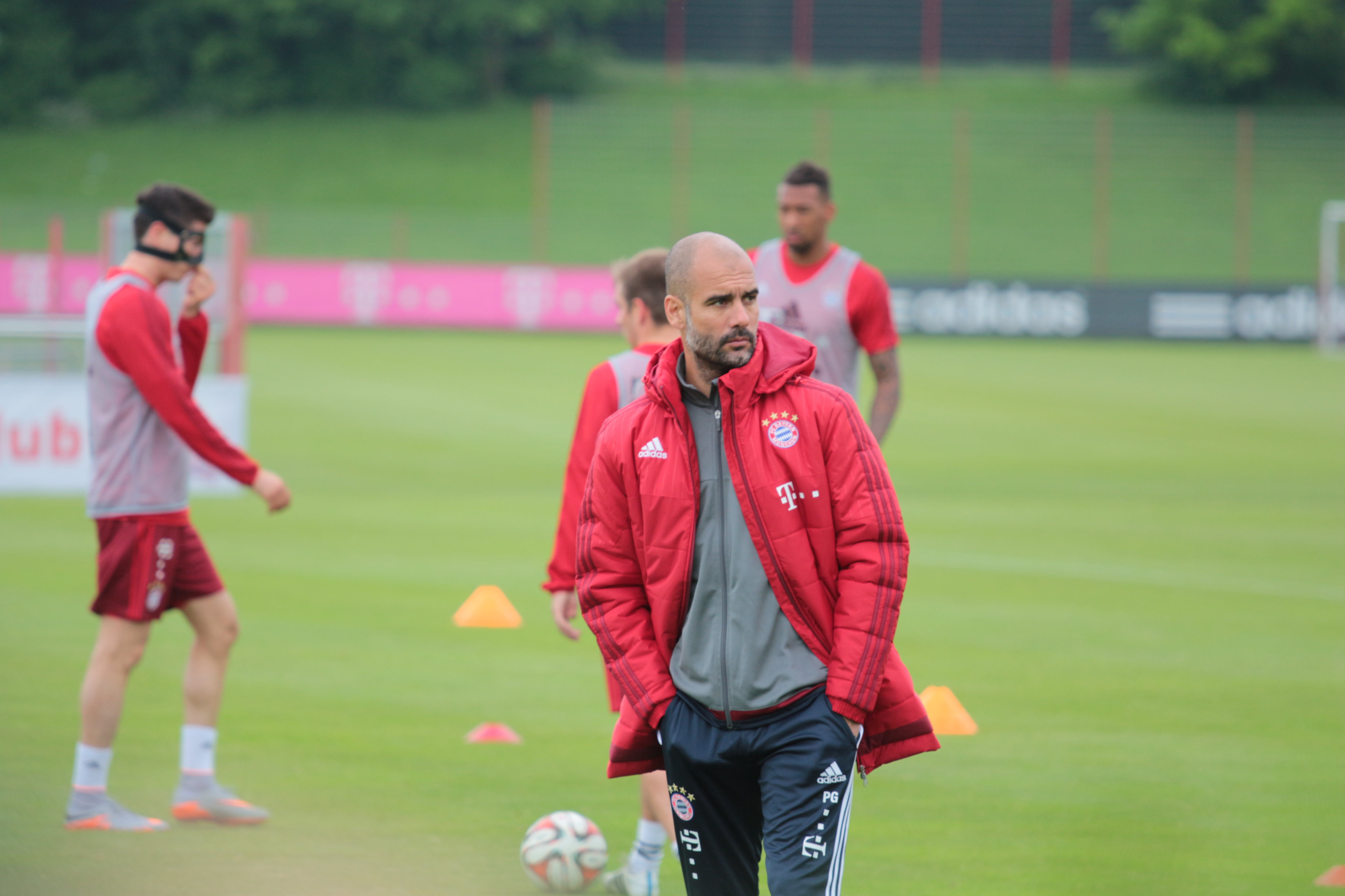 Pep Guardiola during FC Bayern Munich training.